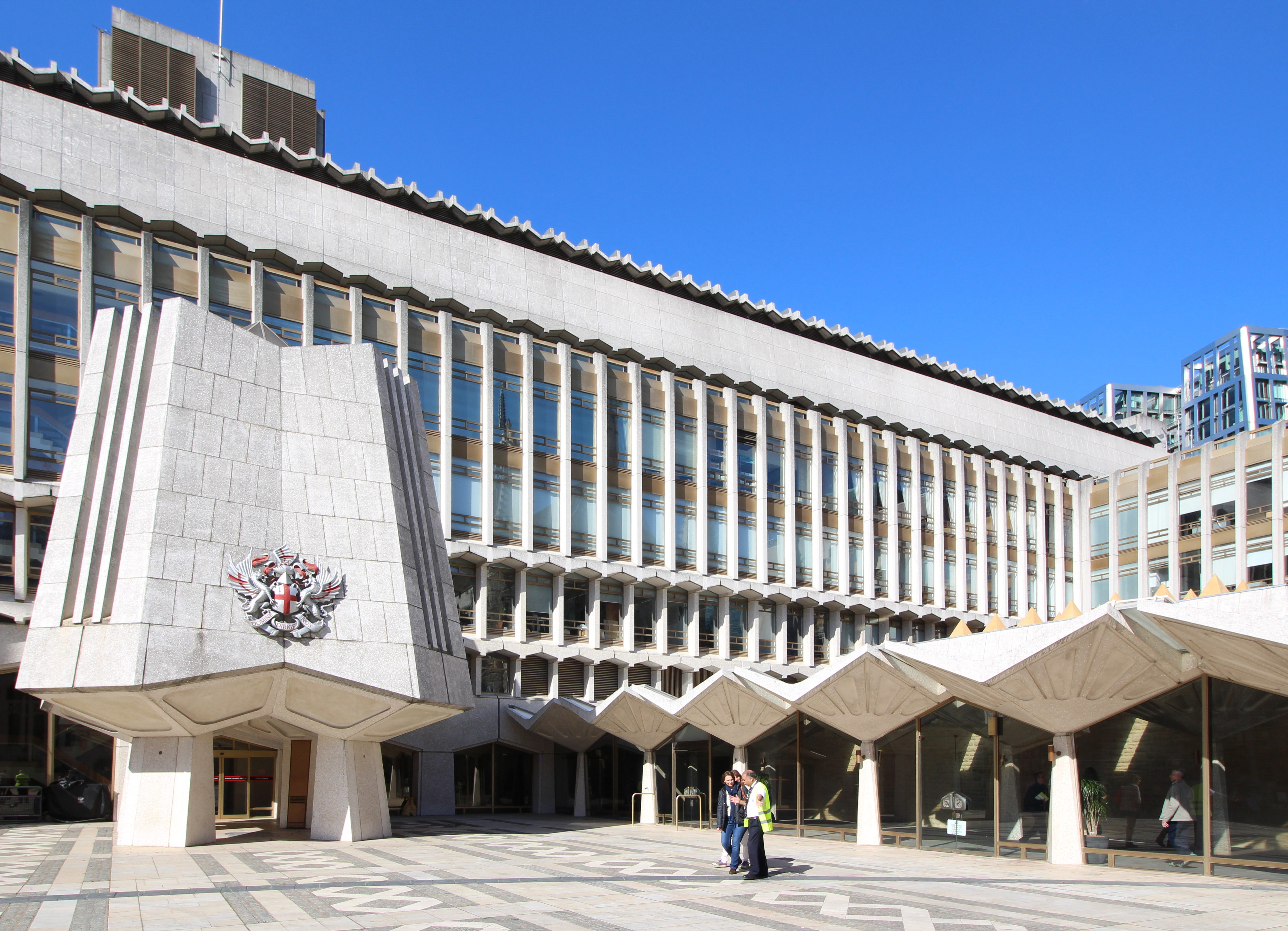 Guildhall|, City of London. Open House Weekend 2015.